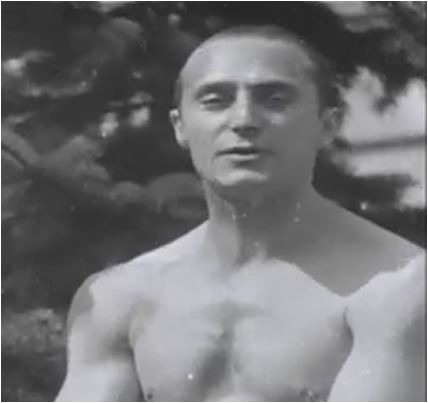 Black and white portrait, bust, of André Durville shirtless.